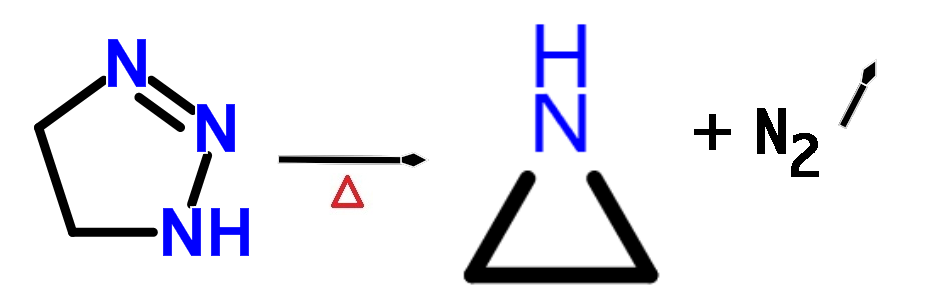 Aziridine synthesis from triazoline